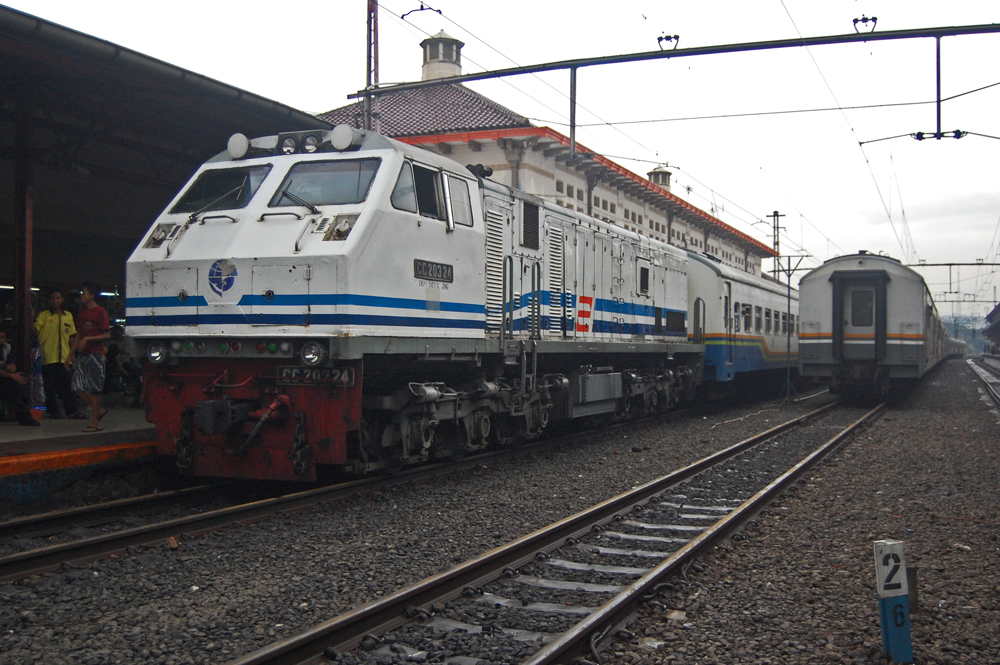 Senja Kediri passenger train in Pasarsenen station, Jakarta